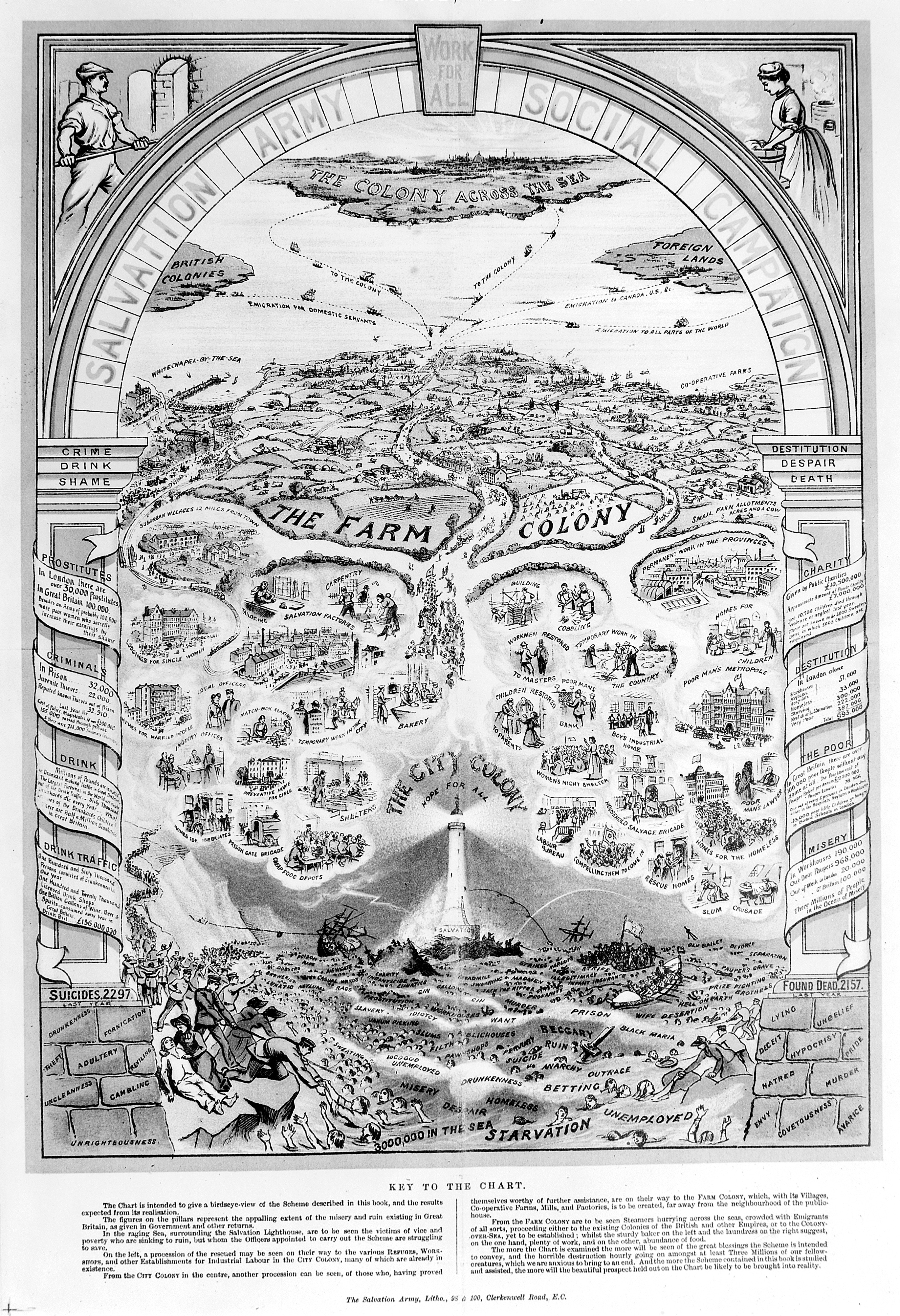 A diagrammatical representation of the work and views of the Salvation army amongst the very poor. General Collections Keywords: Poverty